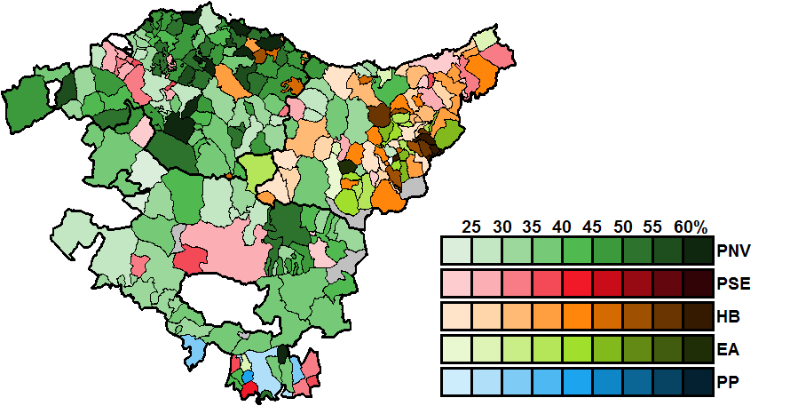 Most-voted party in Basque Country municipalities, showing vote share obtained, in the Spanish general election, 1989.